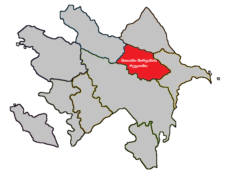 Daghlig Shirvan region.